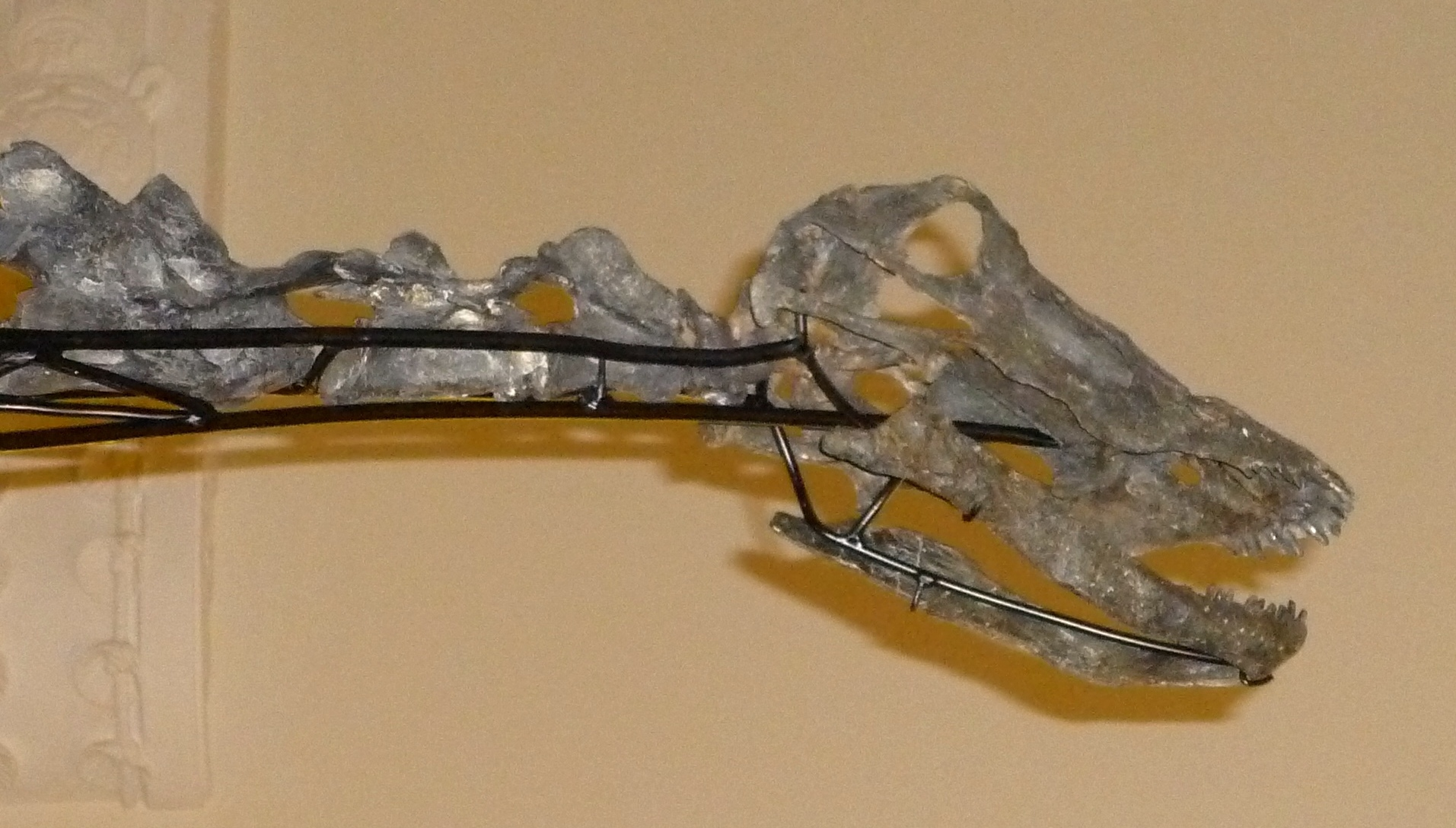 Head of Suuwassea emiliae, Institut de paléontologie humaine, Paris, France